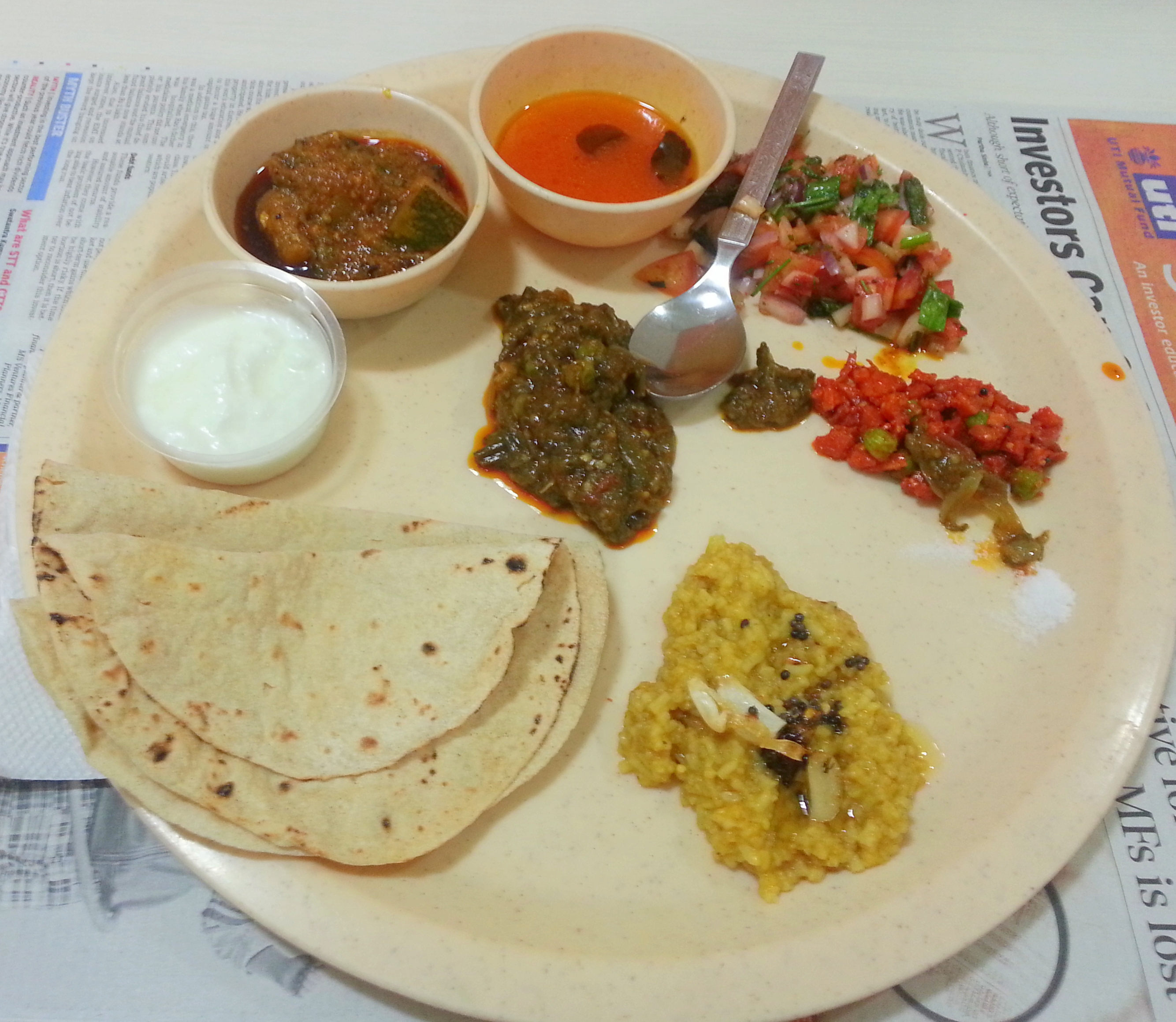 Food eaten by most of the Indian people, it comprises of Dal , Khichidi, Roti ,Sabzi, Curd and chutneys